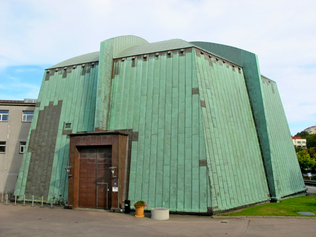 Chalmers University of Technology